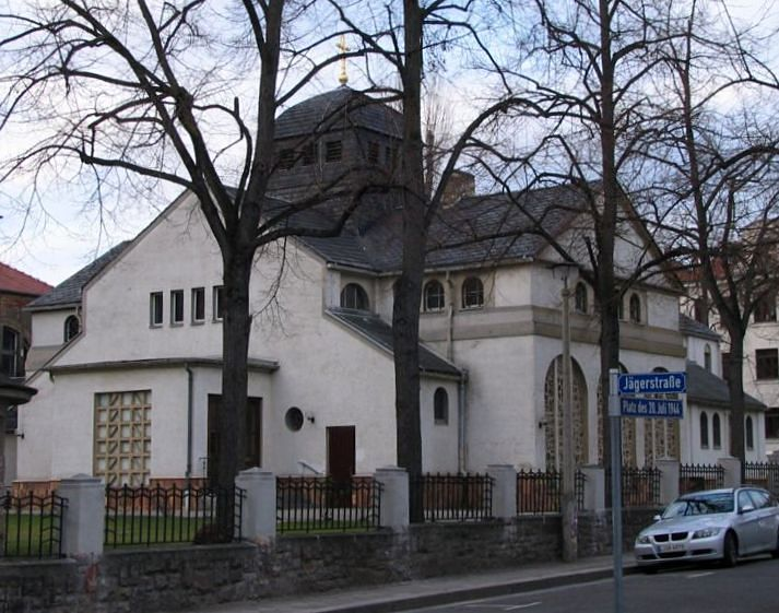 Catholic church St. Georg in Leipzig-Gohlis